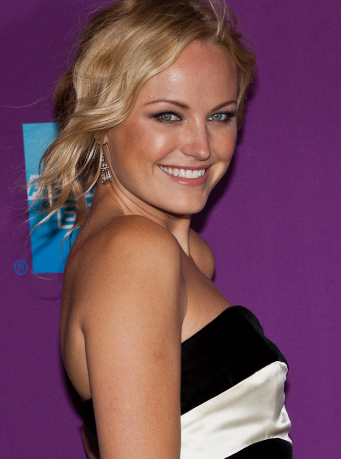 Malin Åkerman at The Giant Mechanical Man premiere, Tribeca Film Festival 2012